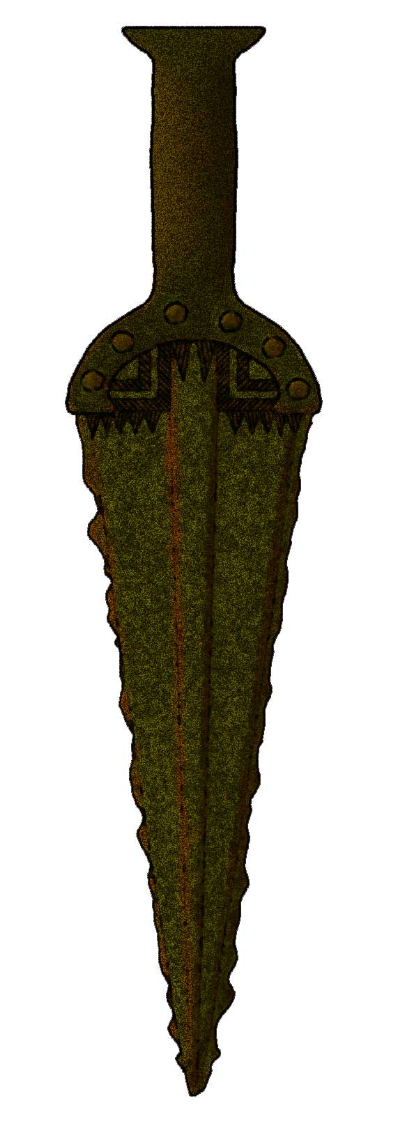 Triangular dagger with solid handdle from the Early Bronze Age (1800 BC-1500 BC). It is characteristic from Unetice culture, but that one comes from the Armorican Tumulus Cuture, in France